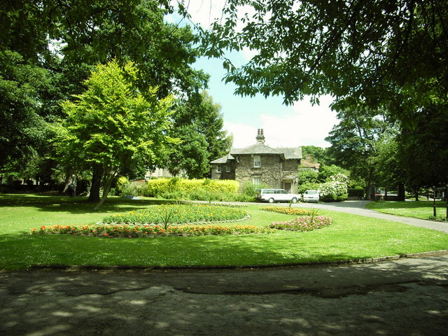 The Lodge, Potternewton Park